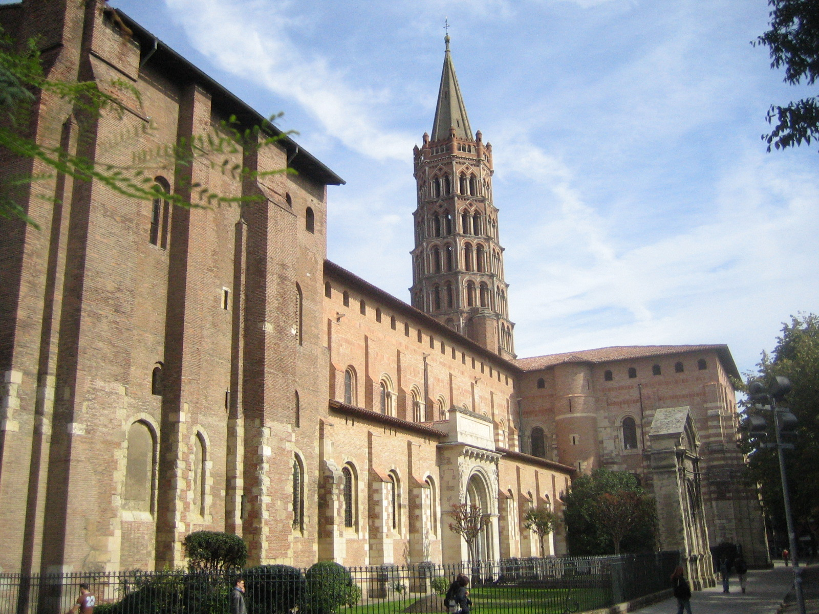 Side view of St. Sernin with the porch